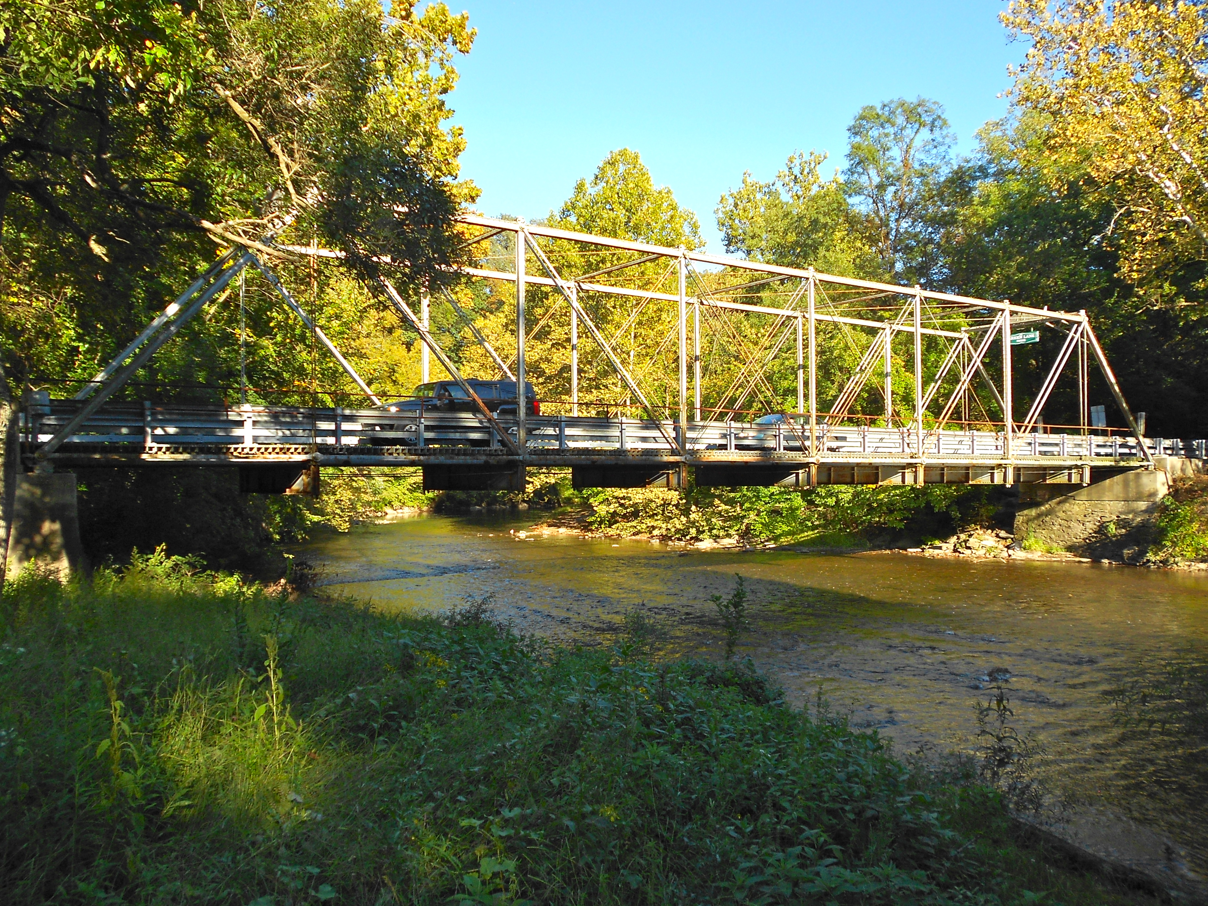 Etters Bridge aka Green Lane Bridge. Listed on the NRHP on February 27, 1986. At Green Lane Drive crossing Yellow Breeches Creek, in Fairview Township, York County, Pennsylvania, extending into Cumberland County